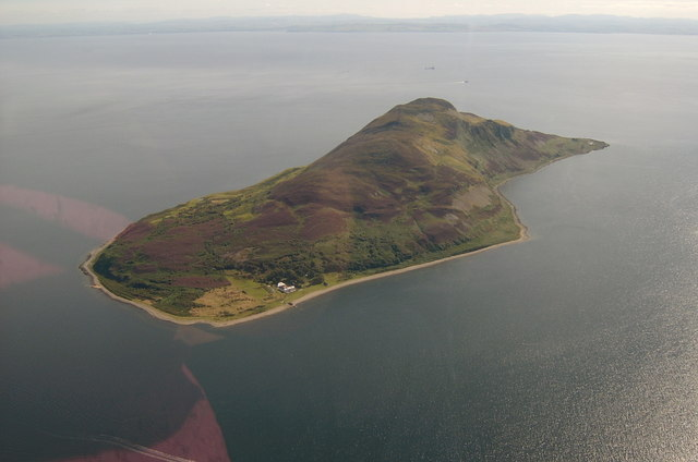 Holy Isle, Arran, from the air This photo was taken from a helicopter on our honeymoon. (sorry about the reflection of my pink shirt!) It was difficult to know which square to allocate this photo to - I know there are a lot of pernickety geographers out there, so I ask you not to start a great debate about whether the photographer was 'in the square', whether the photo is the air equivalent of 'all at sea' - I simply want to share this wonderful view, and others, with the rest of you!